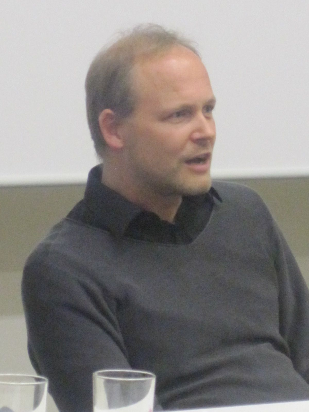 Art historian Wolfgang Ullrich, faculty member of Karlsruhe university of Arts and Design